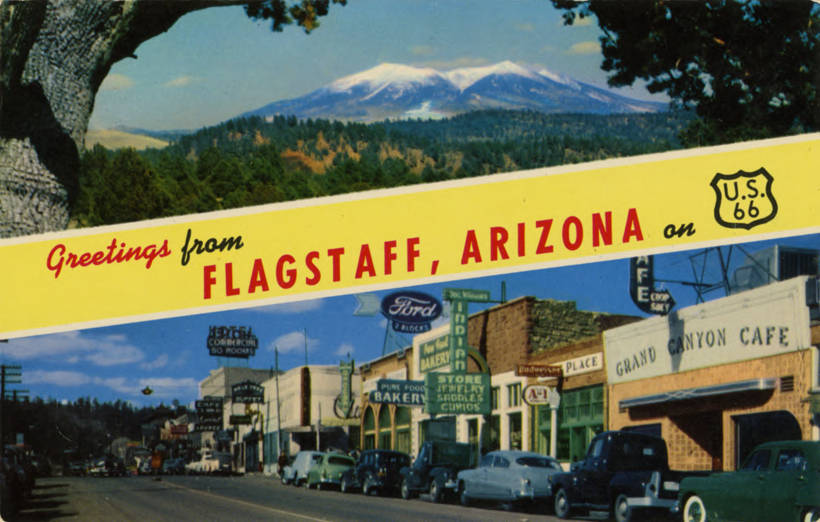 Postcard showing two views of Flagstaff AZ.